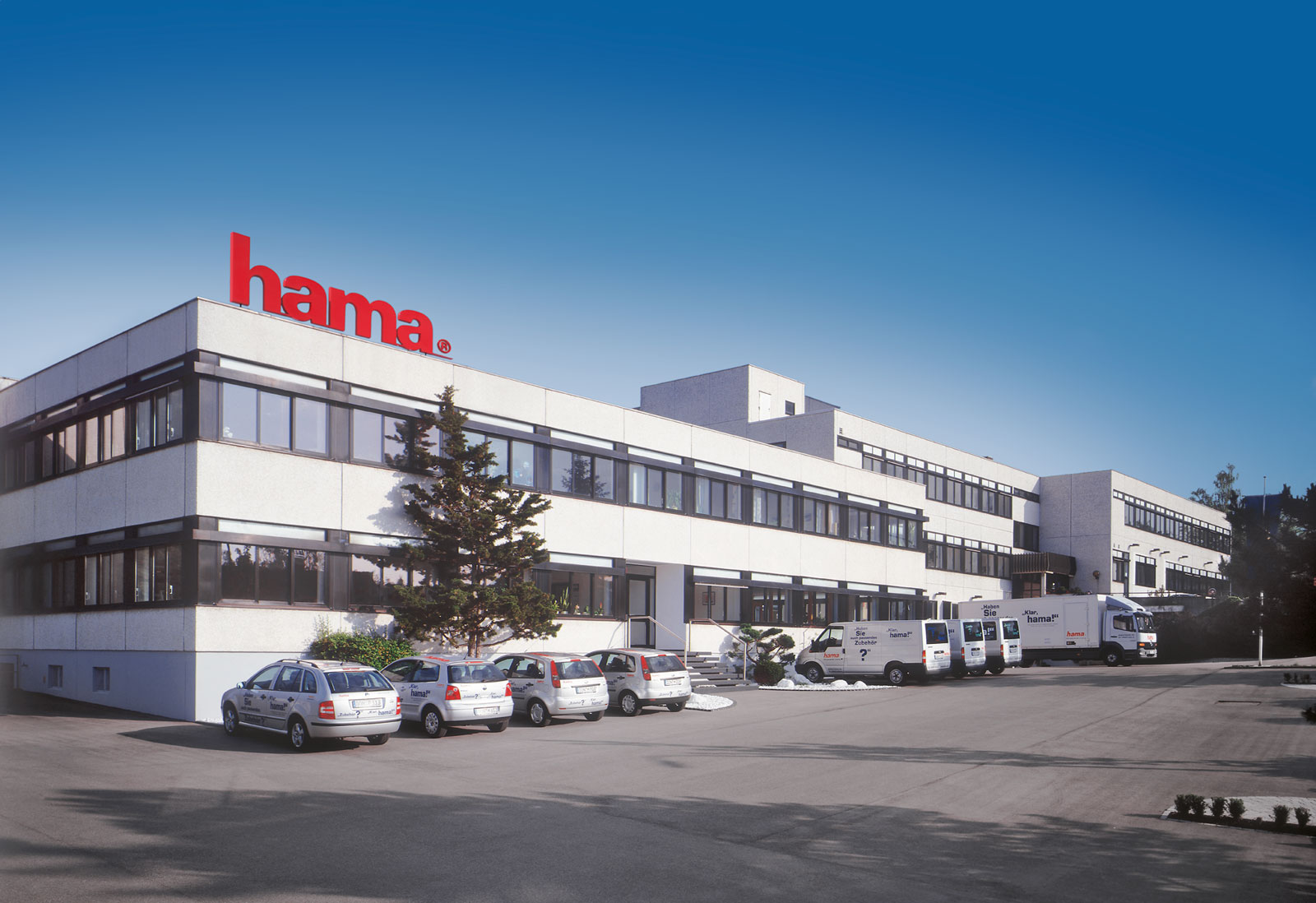 View to administration building of Hama GmbH & Co KG